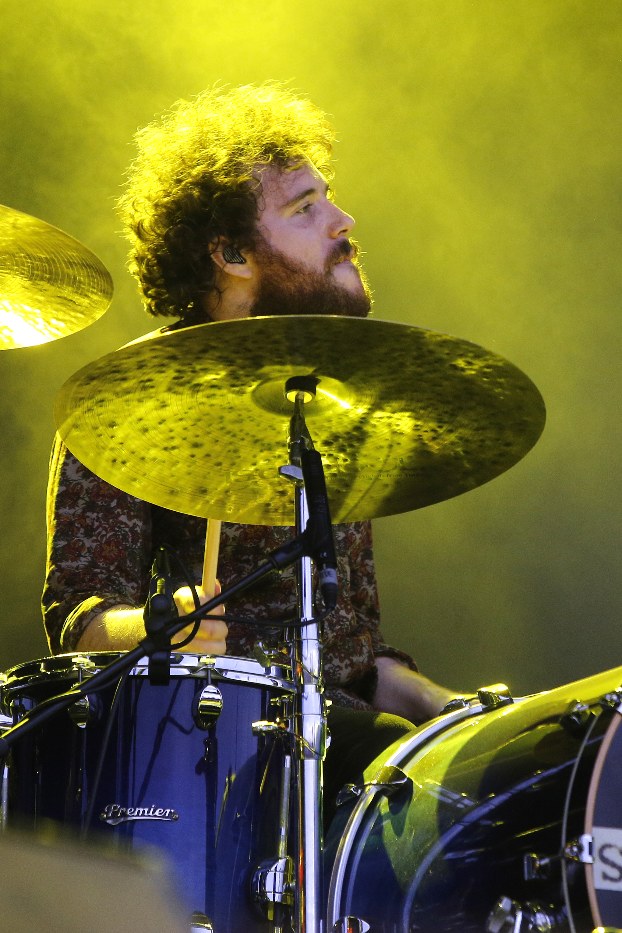 Drummer Jimmie Morrison with Welsh band Stereophonics at Nova Rock-Festival 2013.